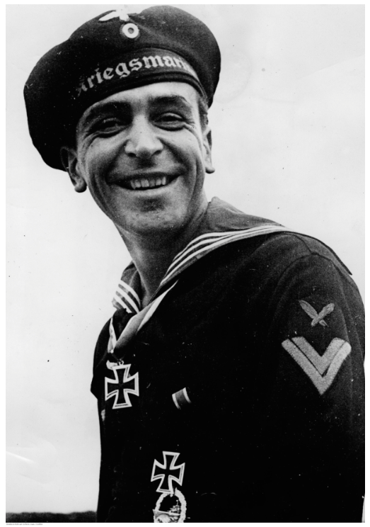 Schreibermaat Walter Gerhold after receiving the Knight's Cross.